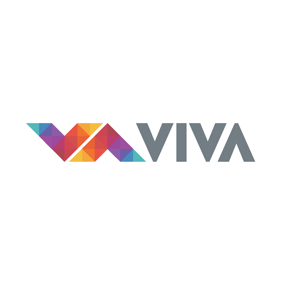 This is the official logo of VIVA Shopping Mall.